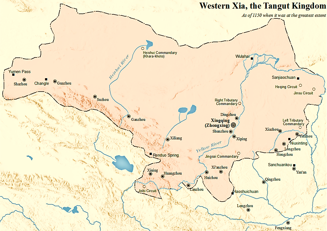 Map of Western Xia (Xixia, the Tangut kingdom) as of 1150